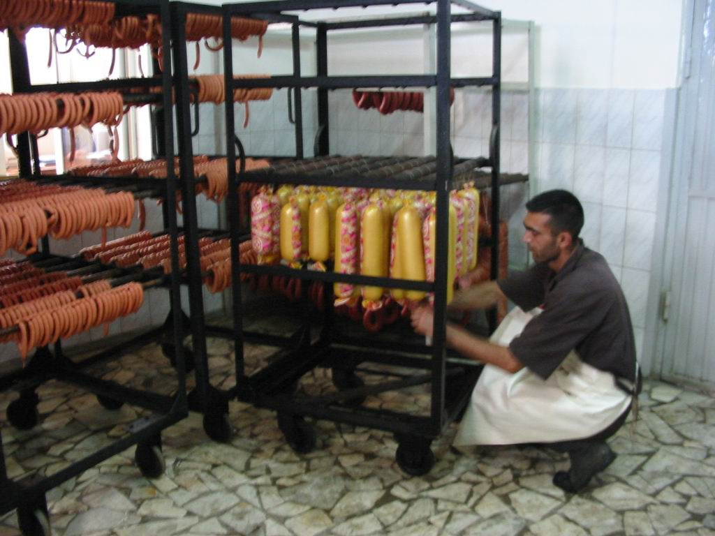 Bilyan sausage factory in Armenia.